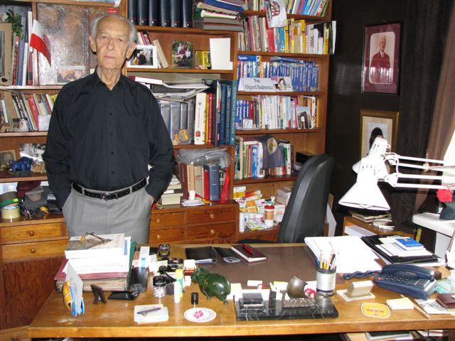 Olgierd Budrewicz (1923-2011), Polish journalist, and traveller